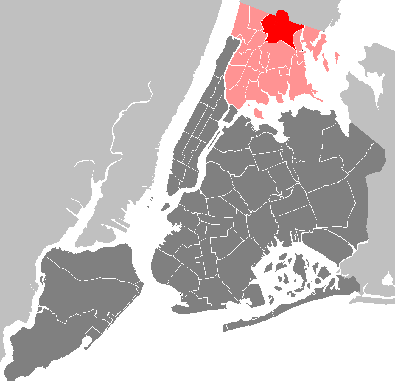 Map of New York showing Community District 12 highlighted within Bronx